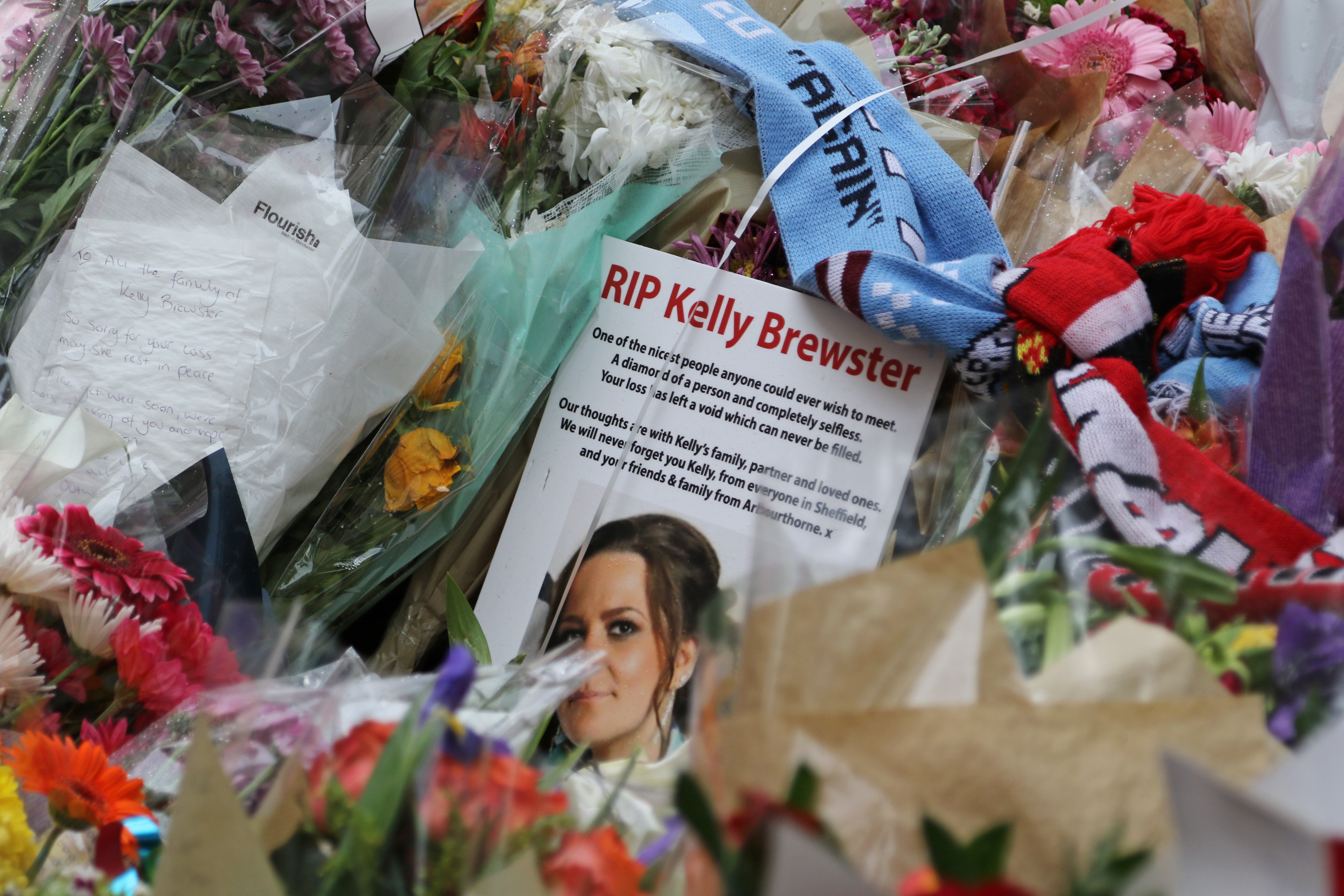 Tributes To the Manchester Bomb Victims